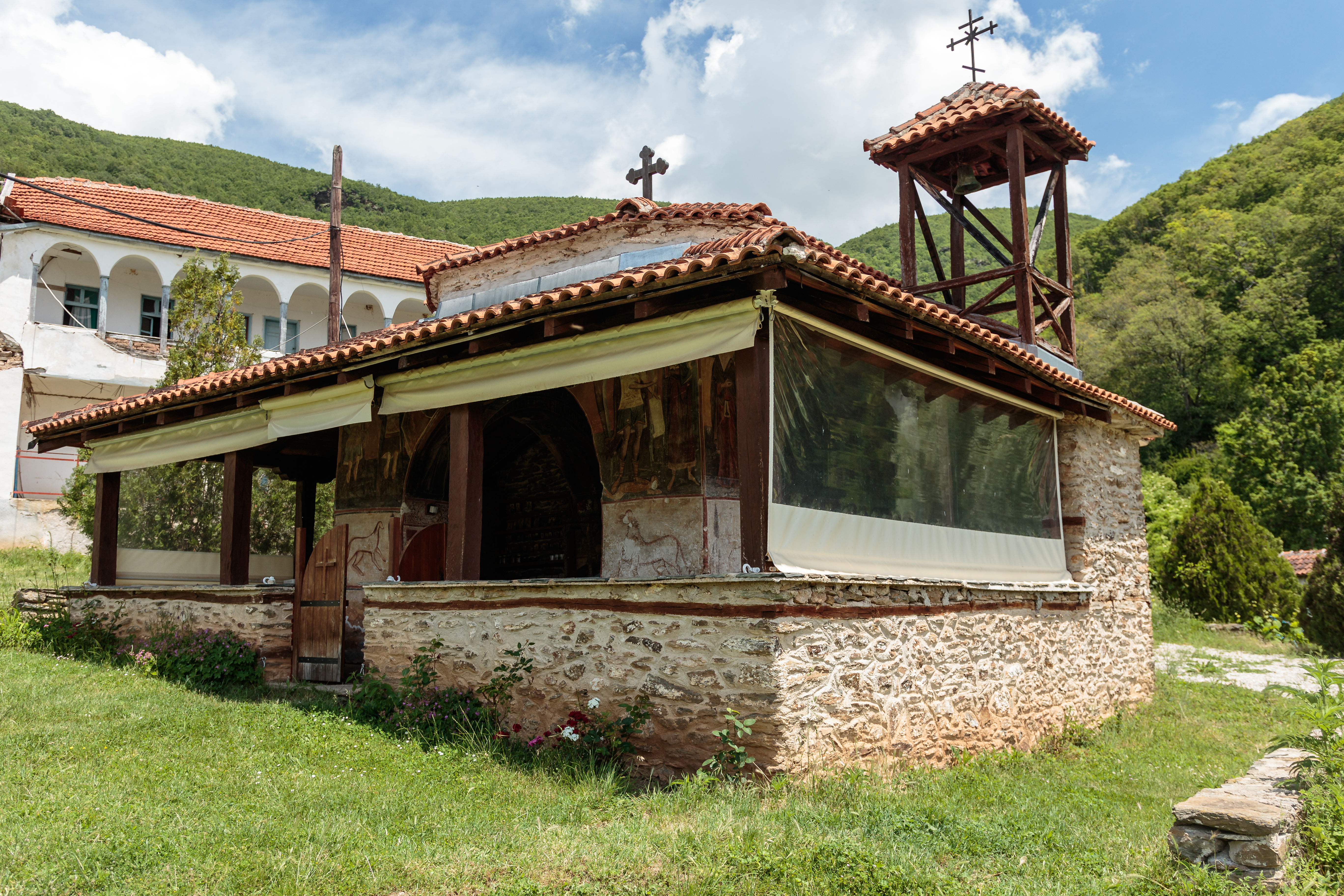 St. Athanasius Church in the village Žurče